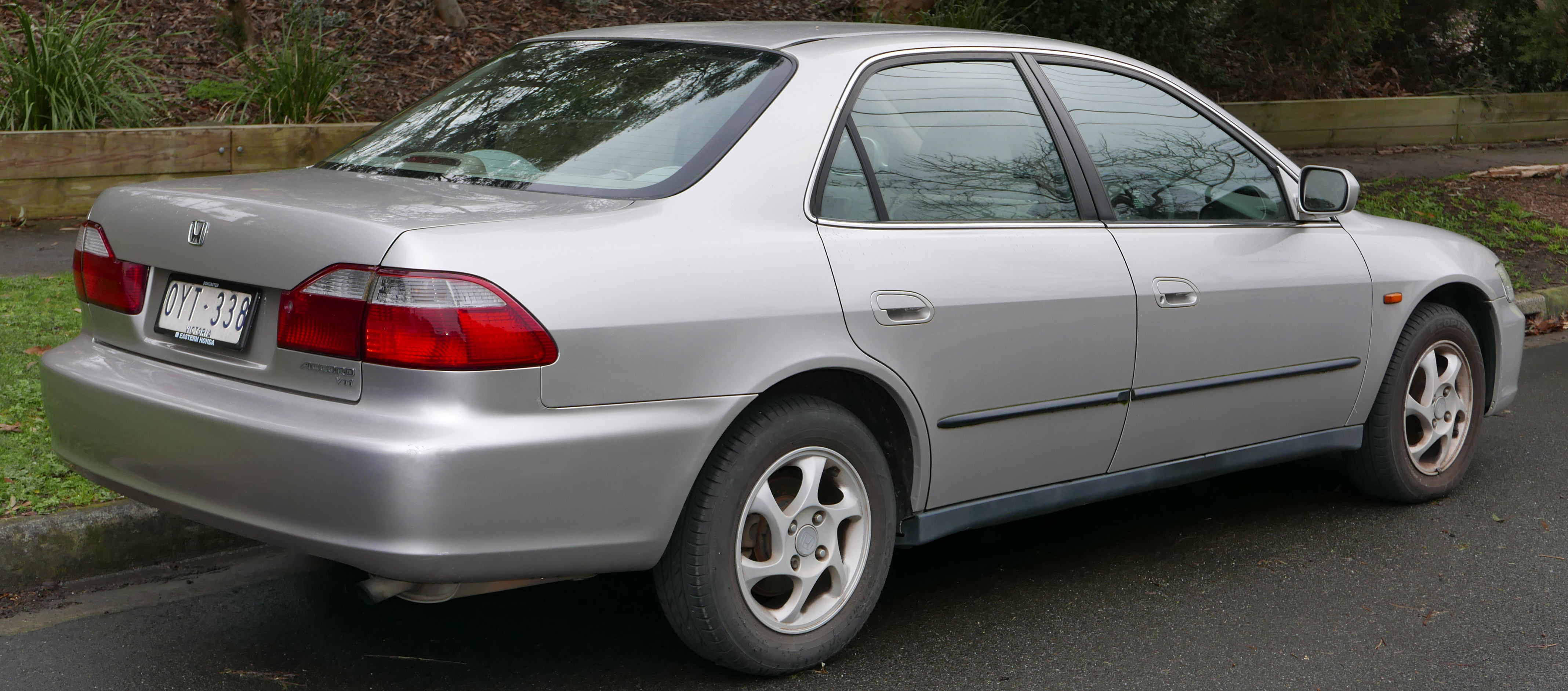 1998 Honda Accord VTi sedan. Photographed in Doncaster, Victoria, Australia. Vehicle registration enquiry results Jurisdiction Victoria Registration OYT338 Chassis code 1HGCG5640WA603382 Engine code F23A11081946 Compliance date 1998-06 Year of manufacture 1998